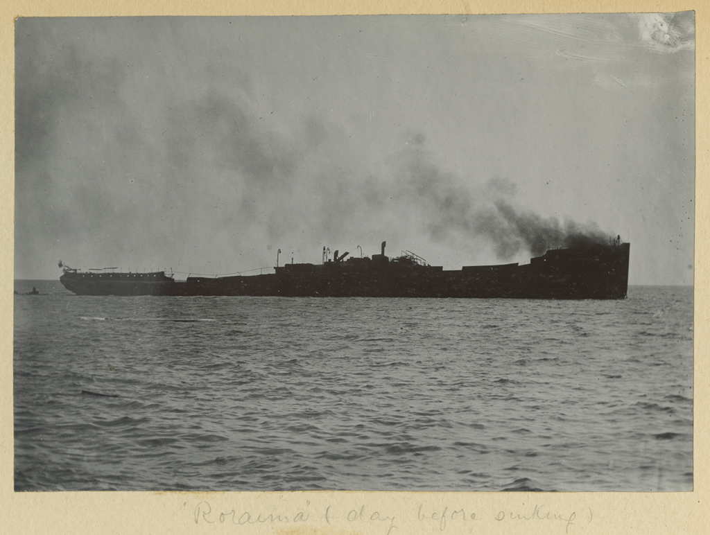 Title: Roraima (day before sinking) Creator: Cooper, W.G. Date: 1902 Part Of: Mt. Pelee volcano, St. Pierre, Martinique Description: Photograph from album that includes views of Martinique and destruction, dead, and rubble from the eruption of the Mt. Pelee volcano, May 1902. The album comprises 61 photographic prints. It was published by W. G. Cooper, who operated a photography studio in Bridgetown, Barbados. Physical Description: 1 photographic print: gelatin silver, 15.2 x 10.8 cm. Form/Genre: Photographs; Photographic prints; Photograph albums File: ag1982_0026_022a_opt Rights: Please cite DeGolyer Library, Southern Methodist University when using this file. A high-resolution version of this file may be obtained for a fee. For details see the web page. For other information, . For more information, View Latin America and the Caribbean: Photographs, Manuscripts, and Imprints